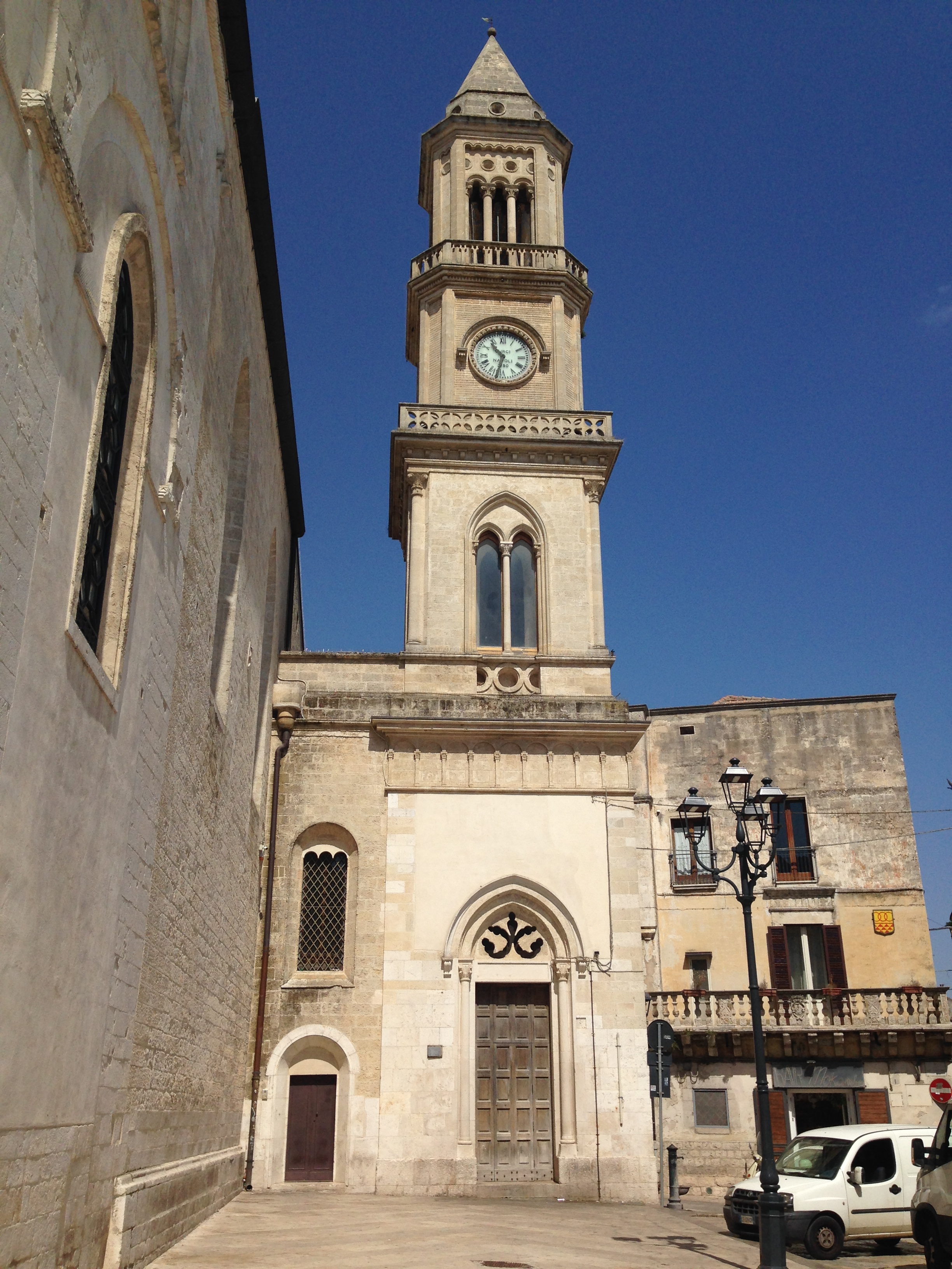 The clock tower attached to Altamura cathedral. The tower was buil in 1859 (just two years before Italy's unification). It was designed by architect Corrado de Judicibus